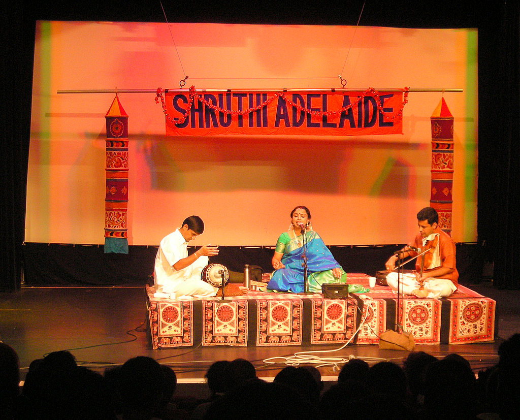 Carnatic singer Mrs. Sudha Raghunathan accompanied by violin and mridangam player. From a concert held at Parks Arts and Function Centre, Angle Park on Sunday, 20th May, 2007, the event was organized by Shruthi Adelaide.